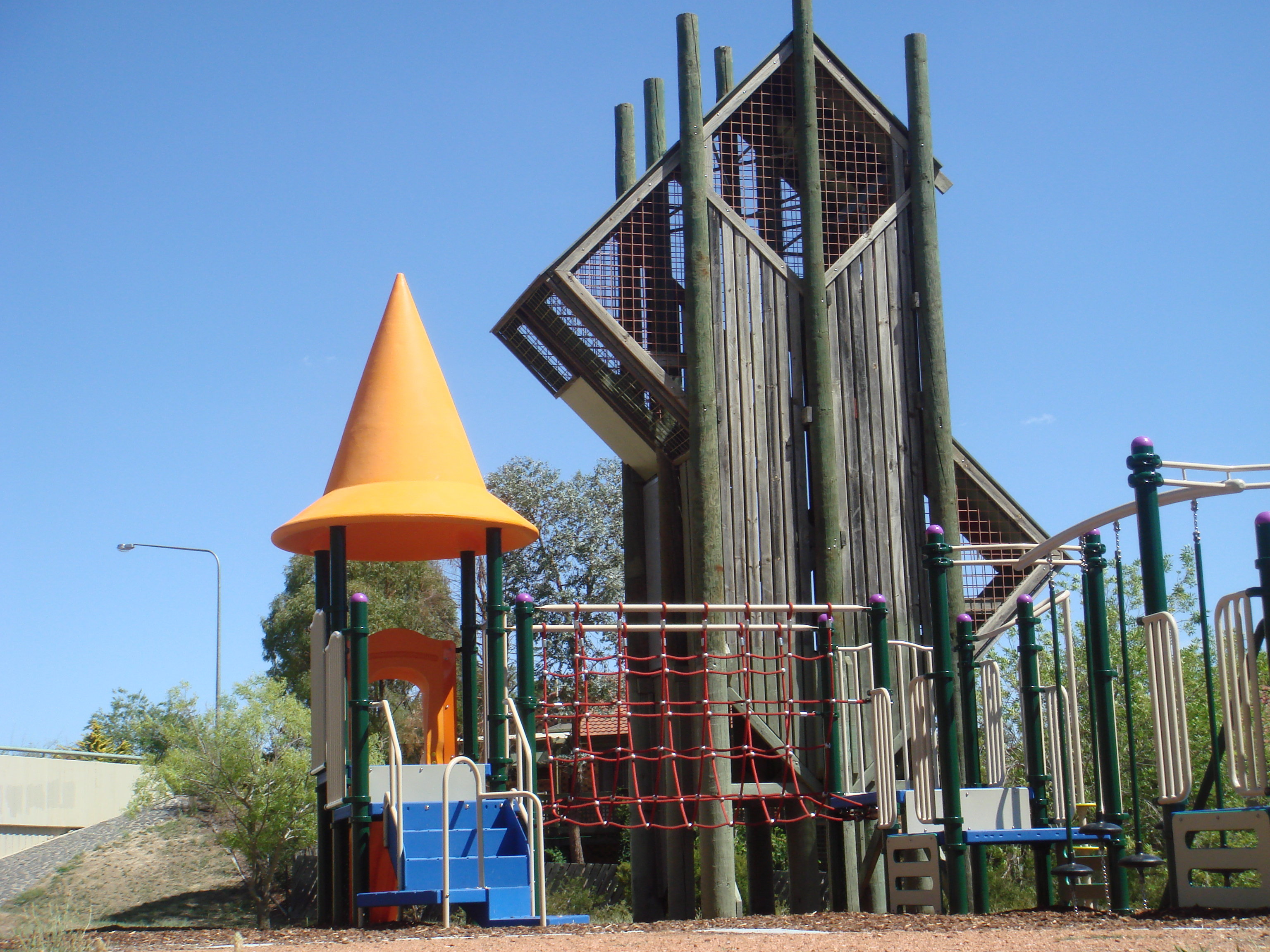 Playground near shopping centre in Isaacs, Australian Capital Territory. Taken by Korske on 20th January 2007.